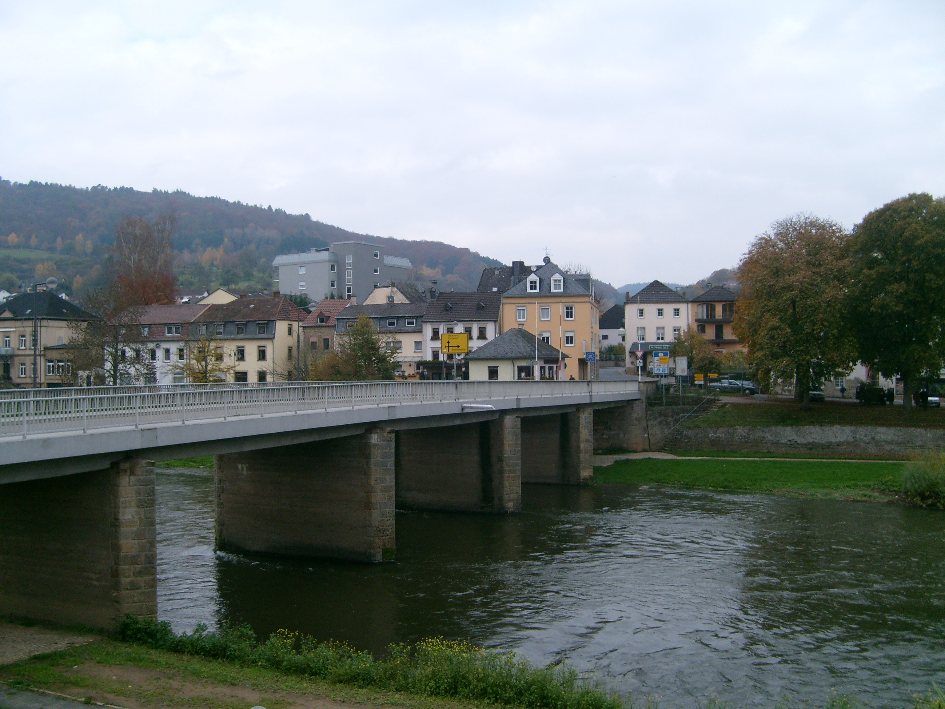 The bridge between Bollendorf-pont (Luxembourg) and Bollendorf (Germany)